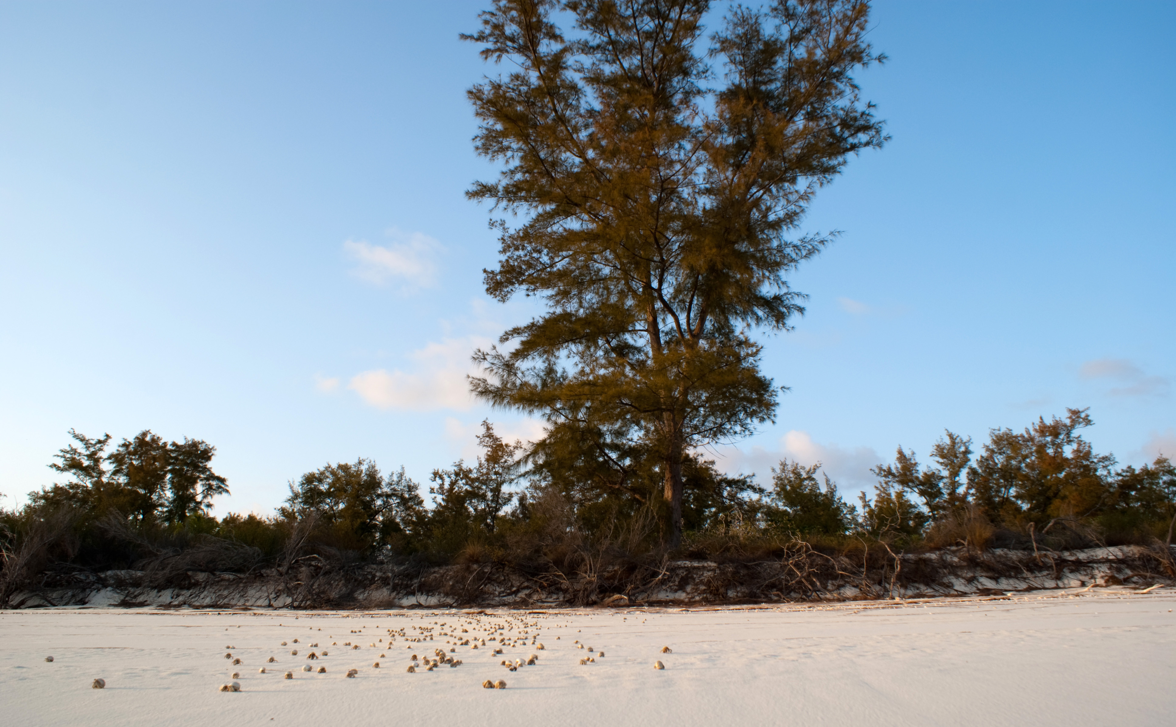 Juan de Nova in Indian Ocean belonging to Scattered islands, within the territory of the France.